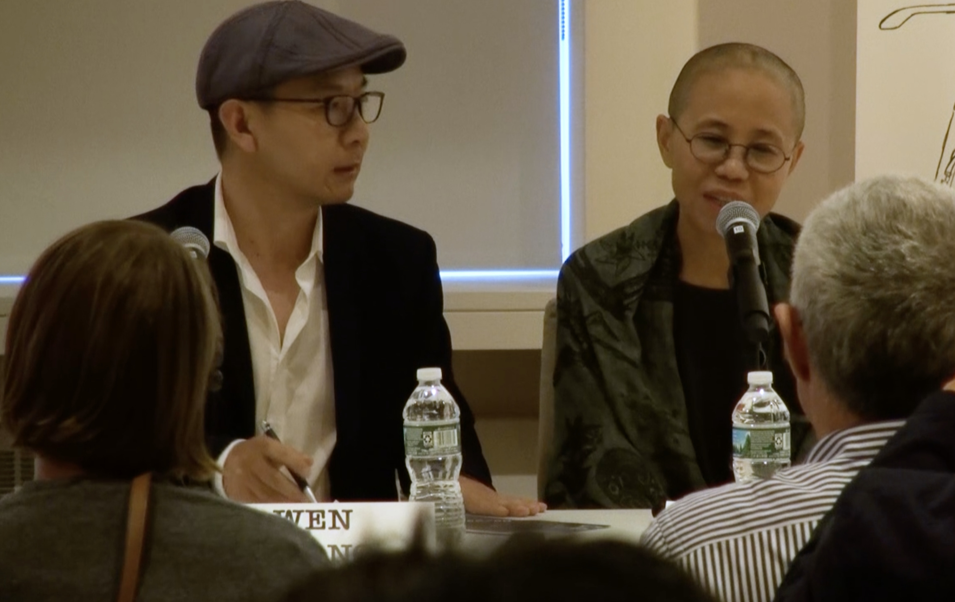 Liu Xia is Chinese poet, painter, photo art designer. Her late husband Liu Xiaobo was awarded with 2010 Nobel Peace Prize. Liu Xia attends a seminar held in the Upper East Side of Manhattan in New York on September 27, 2018 hosted by the Václav Havel Library Foundation.